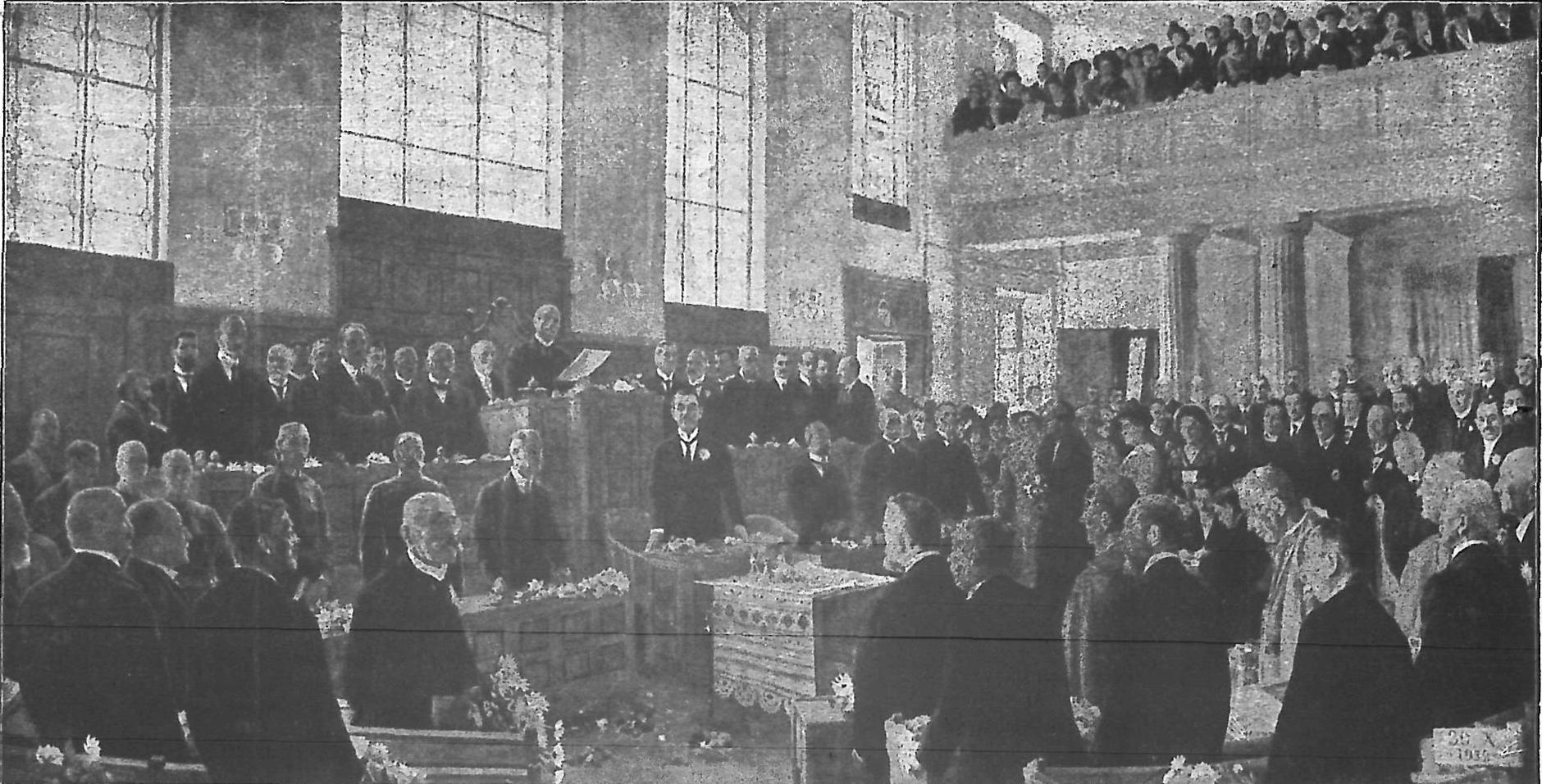 A newspaper photo of a painting depicting Croatian parliamentay meeting, 29th October 1918